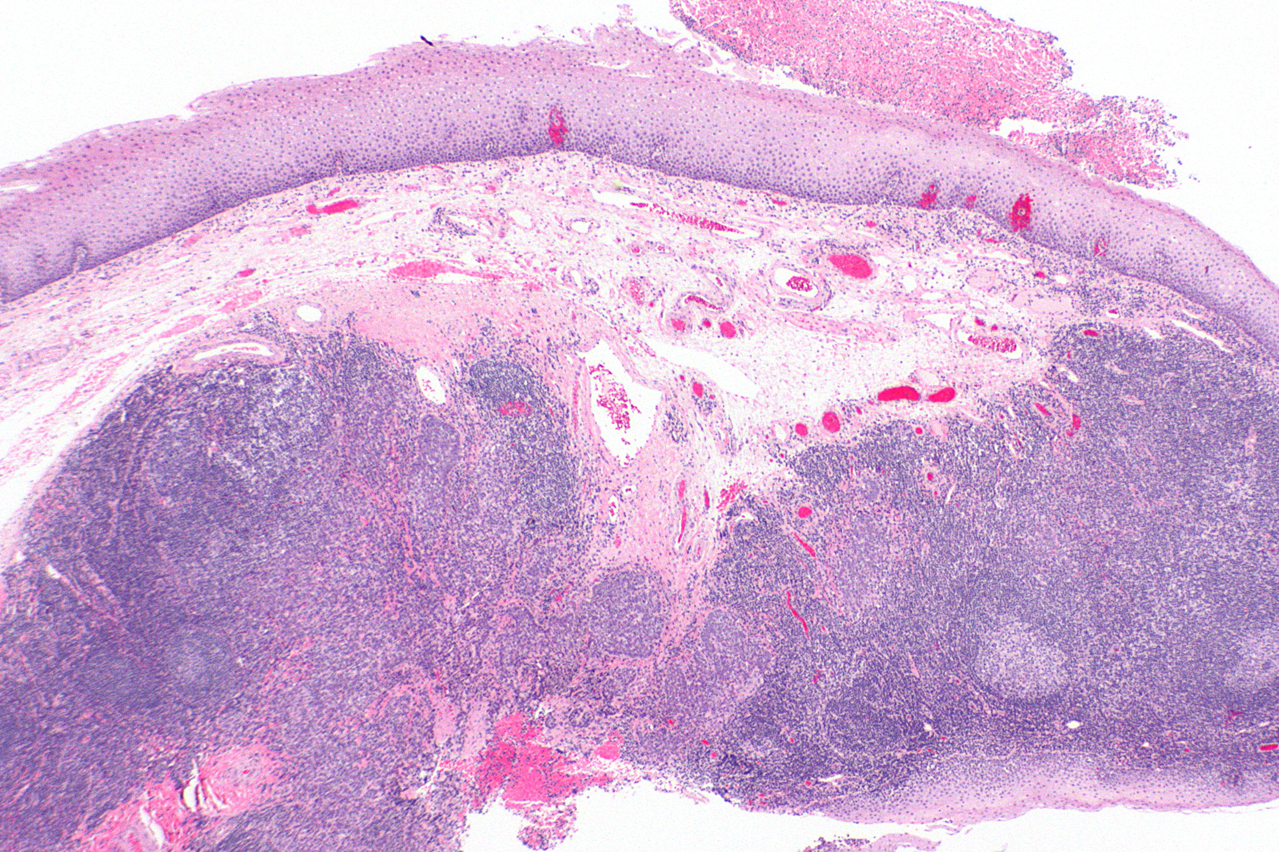 Micrograph of a 'poorly differentiated squamous cell carcinoma (SCC) that is p16 positive and EBV negative. This is compatible with a HPV-associated head and neck SCC; p16 is a poor man's test for HPV. Related images SCC p16 positive - very low mag. SCC p16 positive - low mag. SCC p16 positive - intermed. mag. SCC p16 positive - intermed. mag. SCC p16 positive - high mag. SCC p16 positive - very high mag.